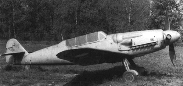 Avia CS-199 Trainer